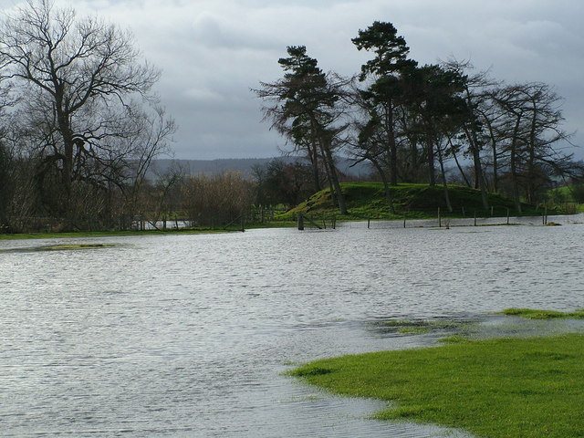 Motte along the Clun Motte along the Clun River, North of Leintwardine, with the late November 2009 floods starting to recede.